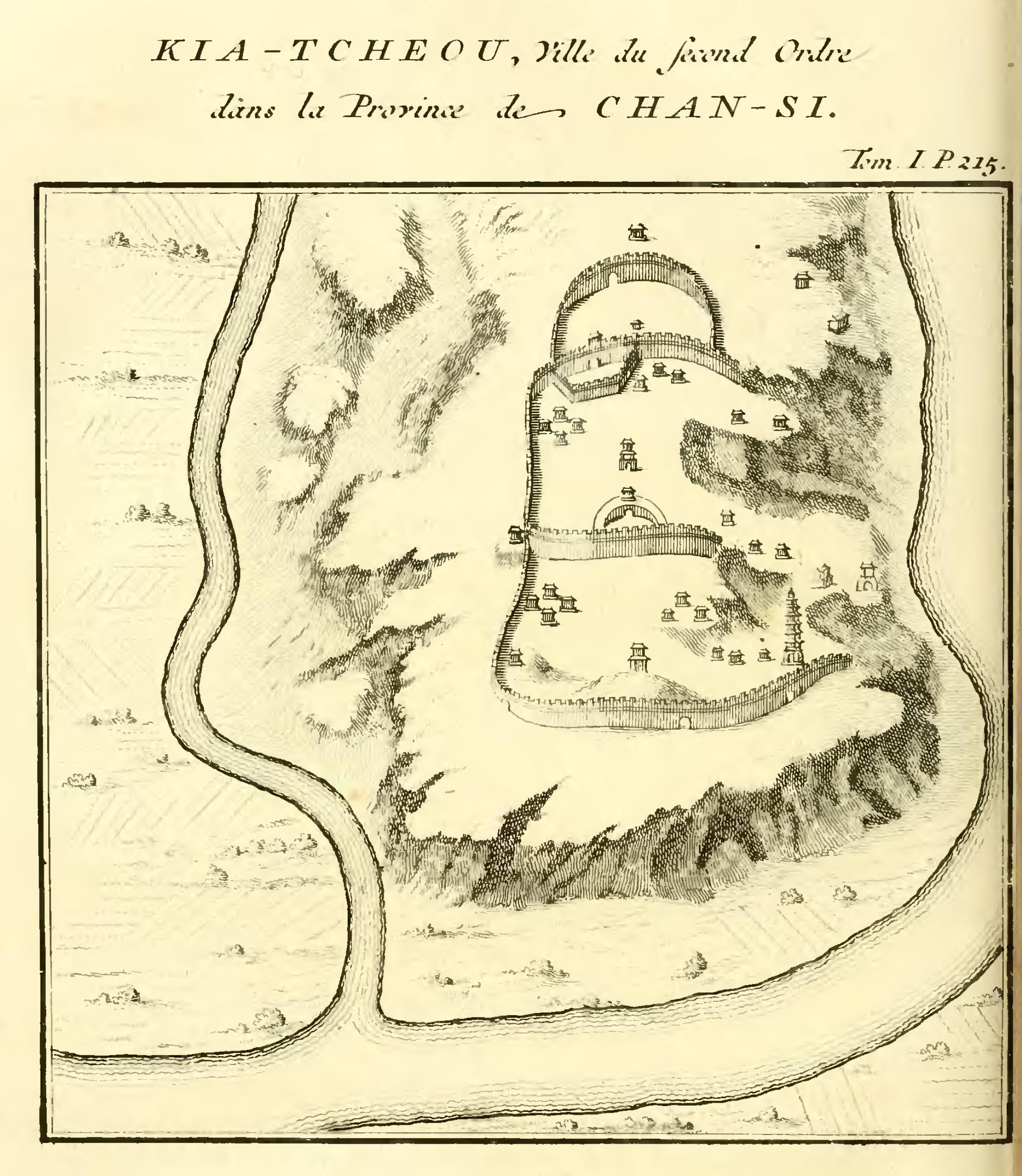 A map of Jiazhou (葭州), "Shanxi", now Jiaxian (佳县) in Shaanxi. An engraving from the Dutch reprint of Du Halde's Description of China, Vol. I, p. 215.